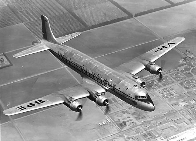 A British Commonwealth Pacific Airlines publicity photo of VH-BPE Resolution, one of four Douglas DC-6 airliners operated by BCPA. On 29 October 1953, this aircraft crashed near Woodside, California, USA, killing all 19 people on board, including the American pianist William Kapell.